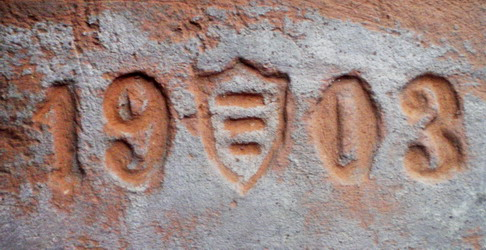 цеглина зі сніжківської глини з гербом Браницьких